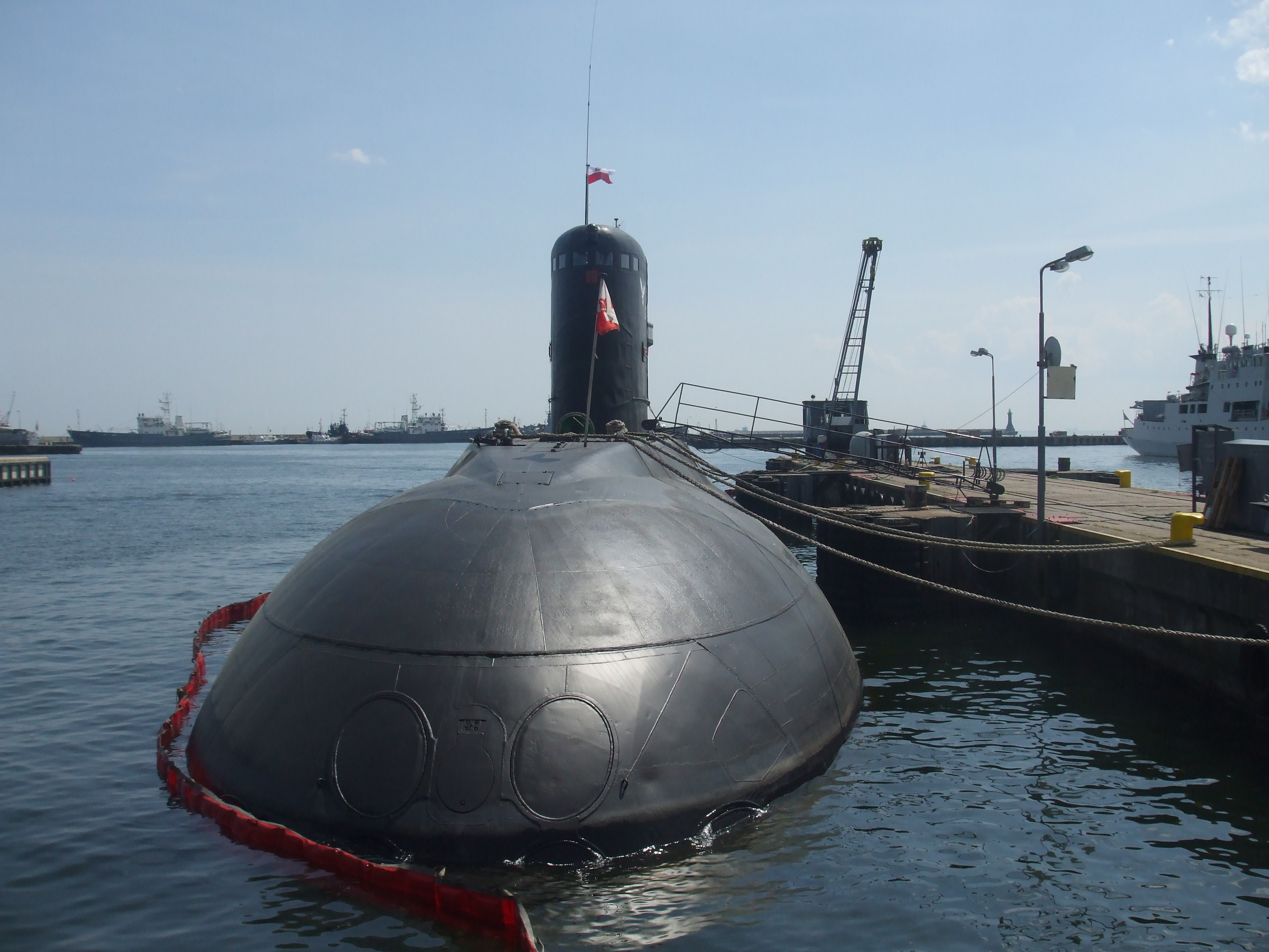 Kilo class submarine ORP Orzeł at pier in Gdynia, Poland.